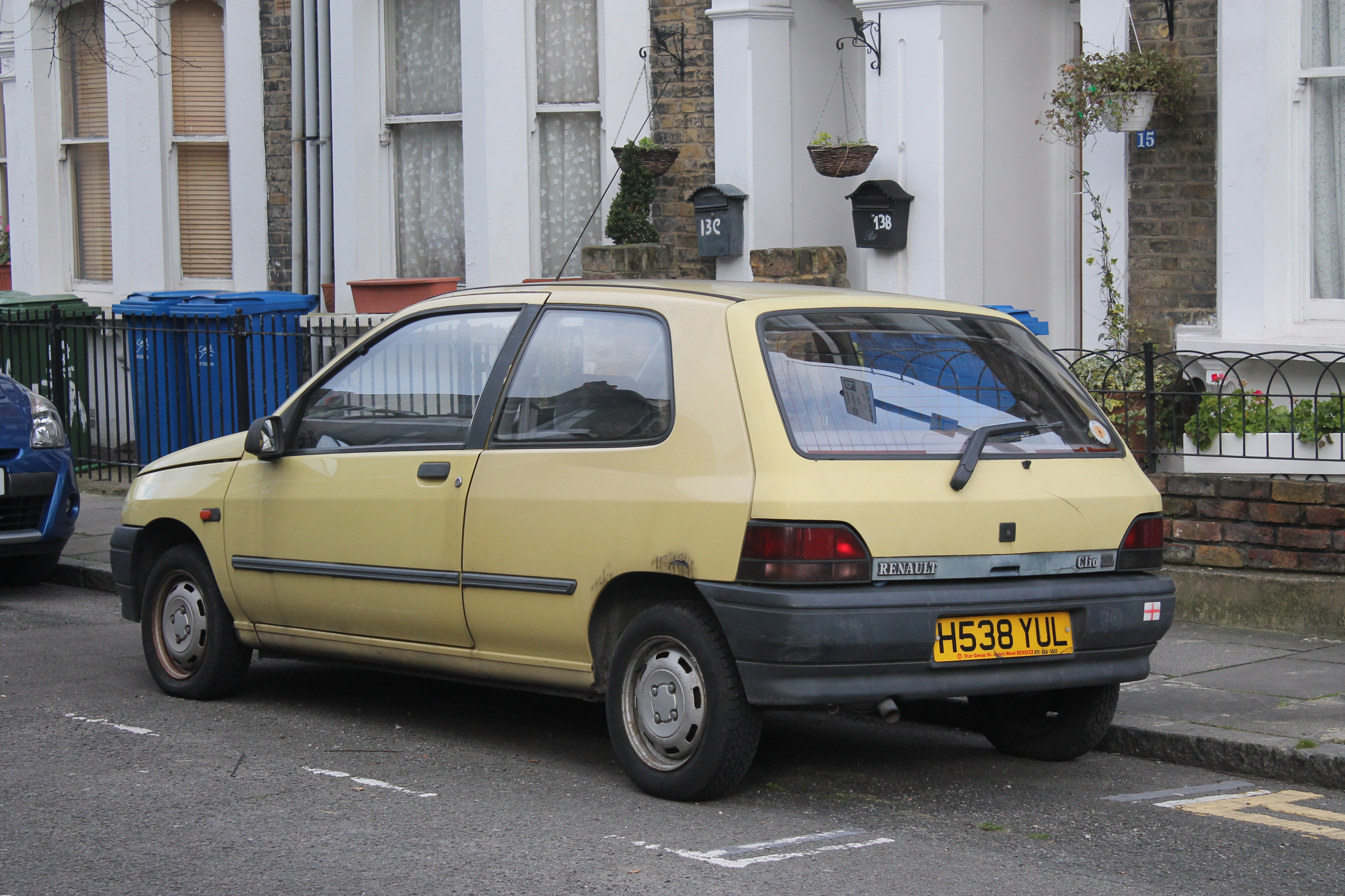 I'm so pleased I finally managed to spot one of the "holy grail" Renault Clios! Early H reg Clios seem to be so hard to come across these days. it's also less common as it's lower spec than most survivors of this age. I like the look of the black bumpers and those interesting steel wheels. The colour also seems to be a lesser seen yellow- rather faded in this case. Hard to think it's 23 years old now! Sales of the Clio in the UK started in March 1991, and this one's May '91 registered, so fairly early on. It could well be OAP owned judging by the condition. I still see lots of the later Clios, but the first generation aren't easy spots any more. There can't be too many H plates around now. 'UL' is the code for Central London, very close to where I spotted it (South London). The vehicle details for H538 YUL are: Date of Liability 01 08 2014 Date of First Registration 07 05 1991 Year of Manufacture 1991 Cylinder Capacity (cc) 1171cc CO₂ Emissions Not Available Fuel Type PETROL Export Marker N Vehicle Status Licence Not Due Vehicle Colour YELLOW Vehicle Type Approval Not Available